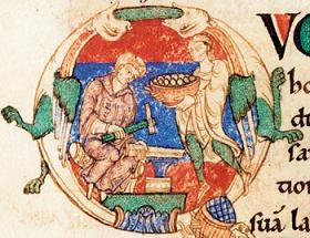 Blacksmith monk, illuminated initial from St Gregory the Great's Moralia in Job, manuscript of the Abbey of Saint-Pierre at Préaux, 11th-12h c